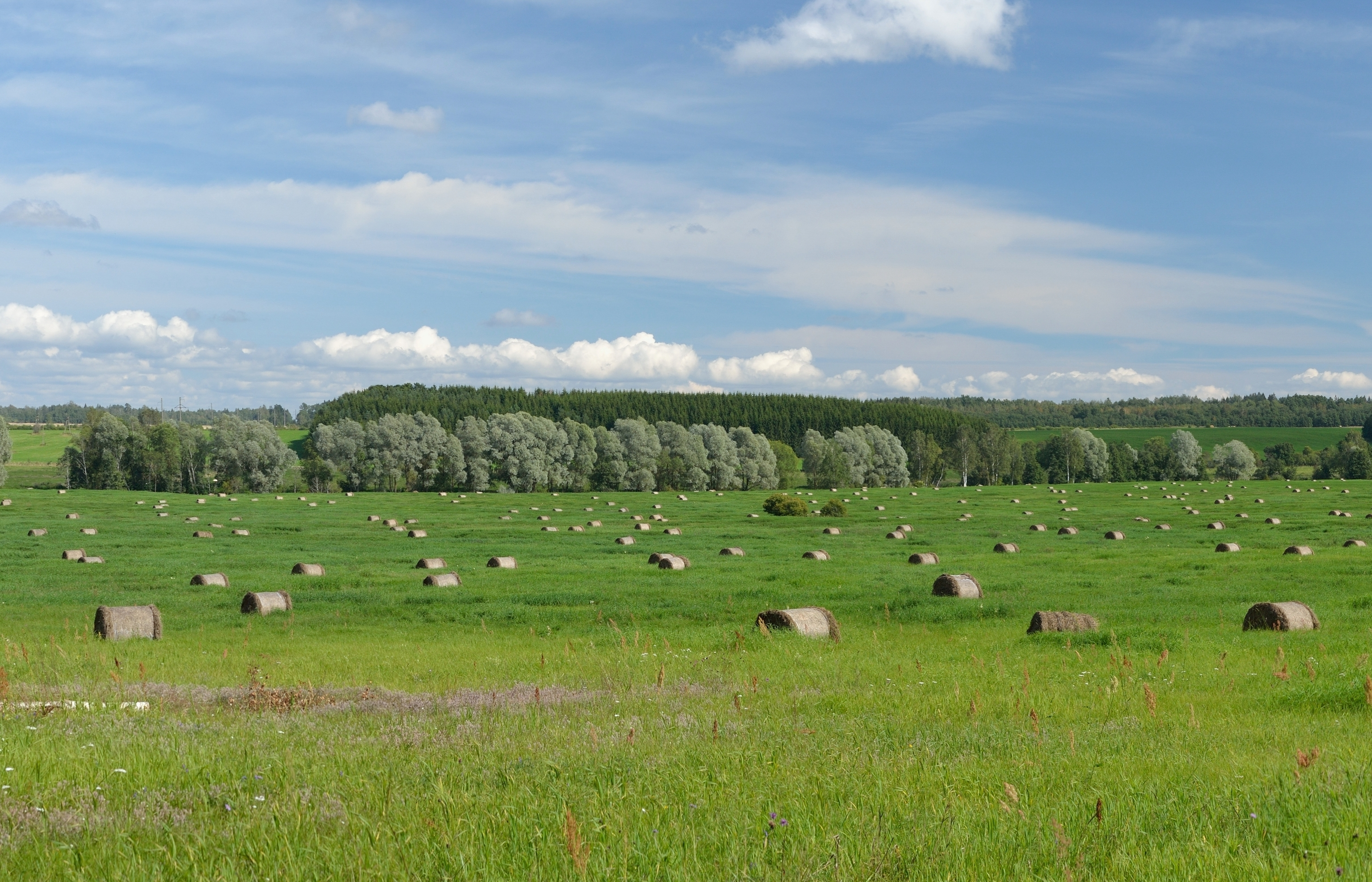 Meadow with round hay bales in Rihkama village, Estonia